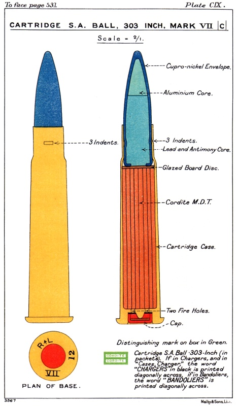 Diagrams showing interior and exterior of British .303 Mk VII cartridge.